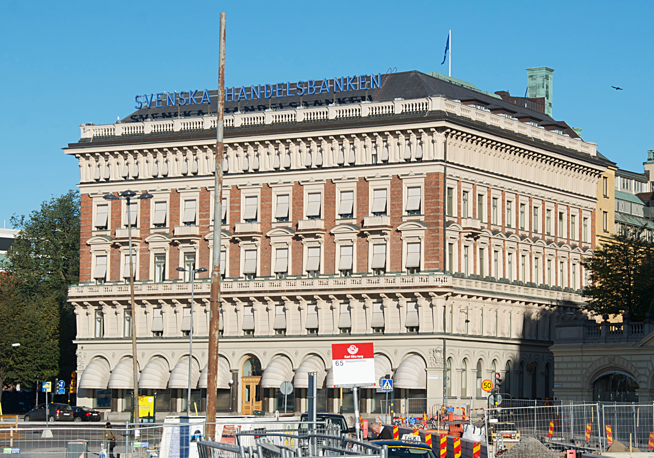 Palmerska huset. Today headquarters for Handelsbanken.